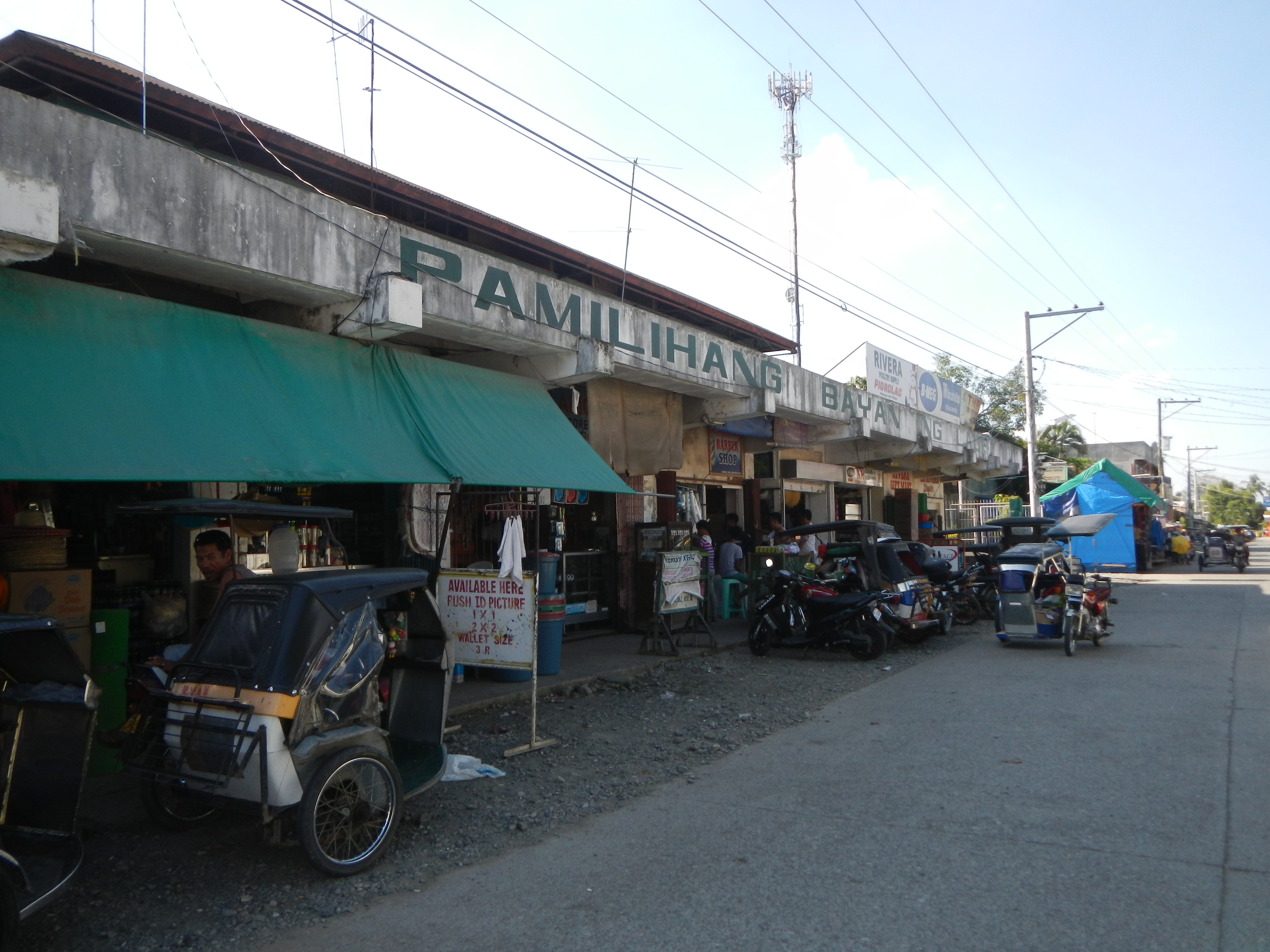 Town Proper Public Market in Barangay Barangay IV (Poblacion), (is beside Pinagbayanan, Laur, Nueva Ecija, from Barangay I (Poblacion), Laur Old Town Hall, Saint Stephen the King Parish Church of Laur beside Saint Stephen Academy, Barangay II (Poblacion), and Barangay III (Poblacion), Laur, Nueva Ecija, from the Laur, Nueva Ecija Welcome Arch in Palayan City, along the Laur-Gabaldon, Nueva Ecija Road, connecting from the Nueva Ecija-Aurora Road (Cabanatuan-Palayan City section) from the Pan-Philippine Highway, also known as the Maharlika "Nobility/freeman" Highway in Cagayan Valley Road).